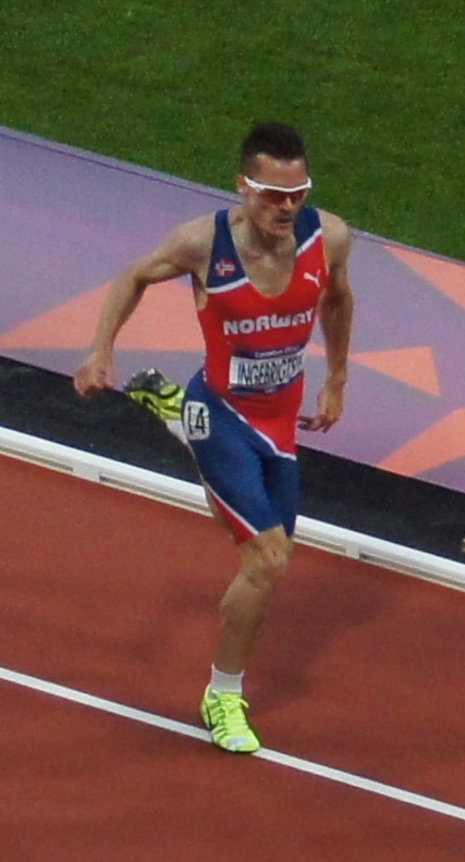 Henrik Ingebrigsten at the 2012 Summer Olympics